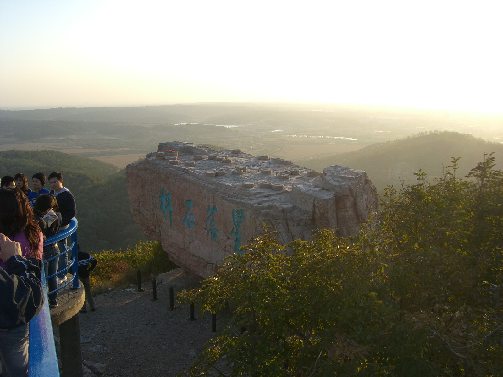 Mount Qipan (棋盤山) in Qipanshan Park, in Shenyang, Liaoning, China, is so called because it has at its top a chess board (将棋盤) in rock formation.